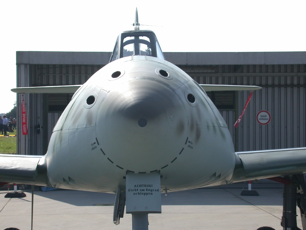 Front of Me-262 on the 2007 air show in Manching, near Munich